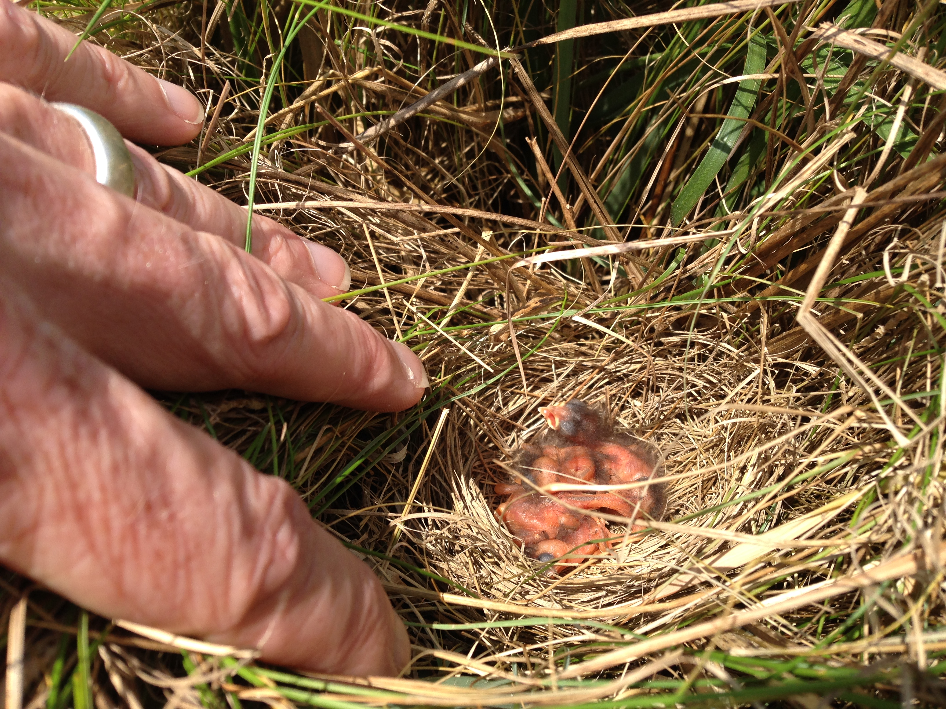 Salt marsh sparrows nest in the tall grasses that grow in coastal marsh areas. Credit: Margie Brenner/USFWS